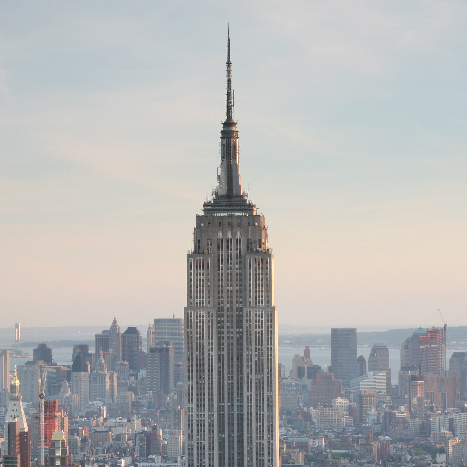 Empire State Building as seen from Top of the Rock